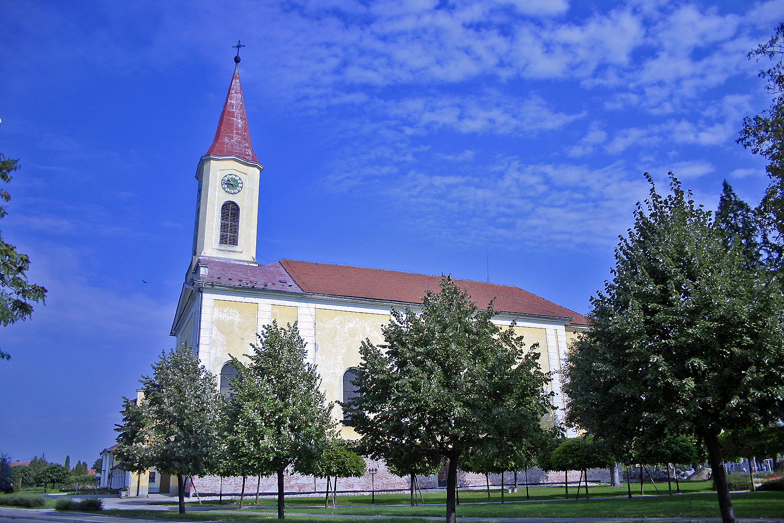 Holy Cross Church, Črenšovci. Renaissance Revival architecture, 1860.